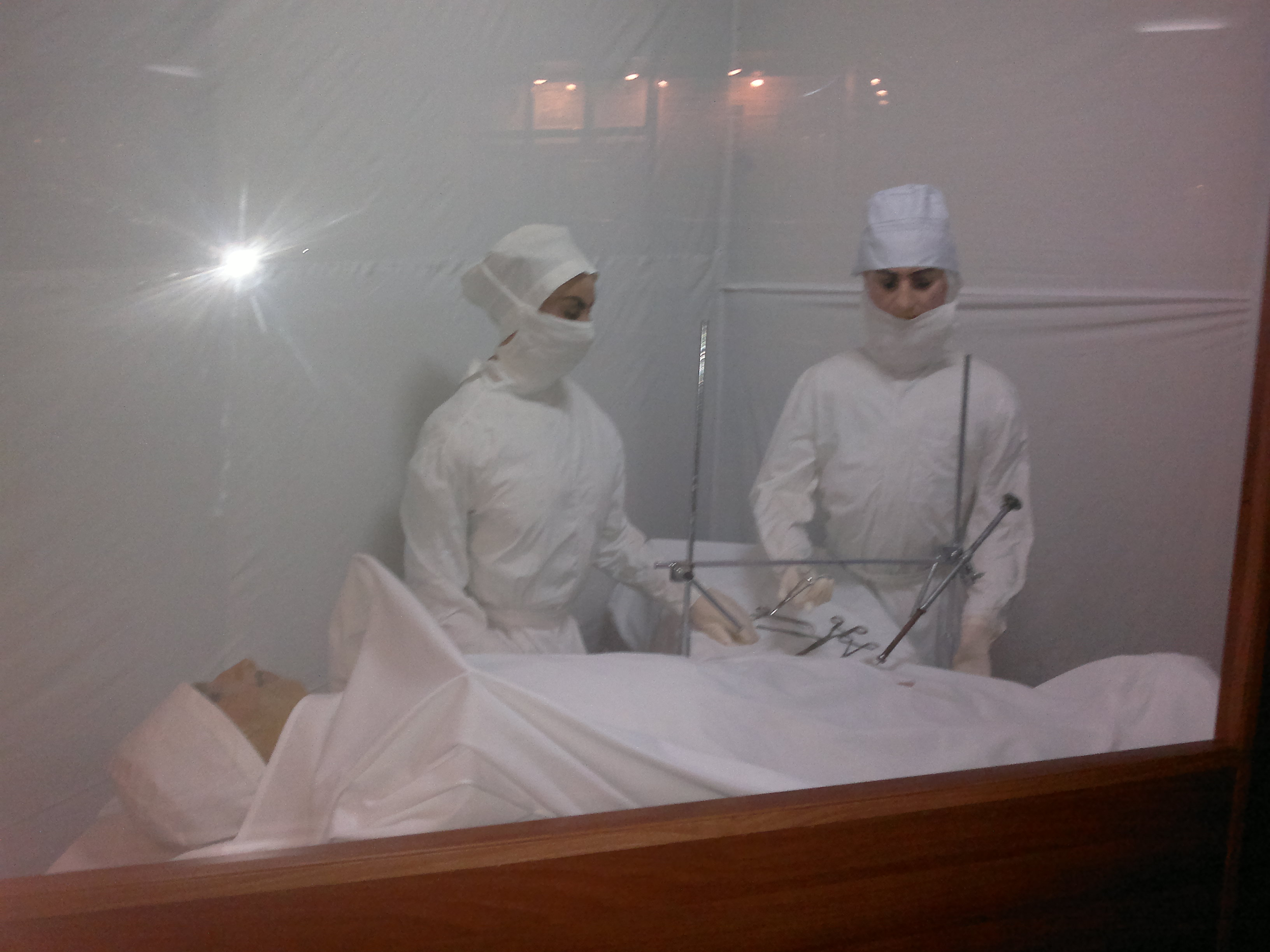 Instrument made by Mustafa Topchubashov